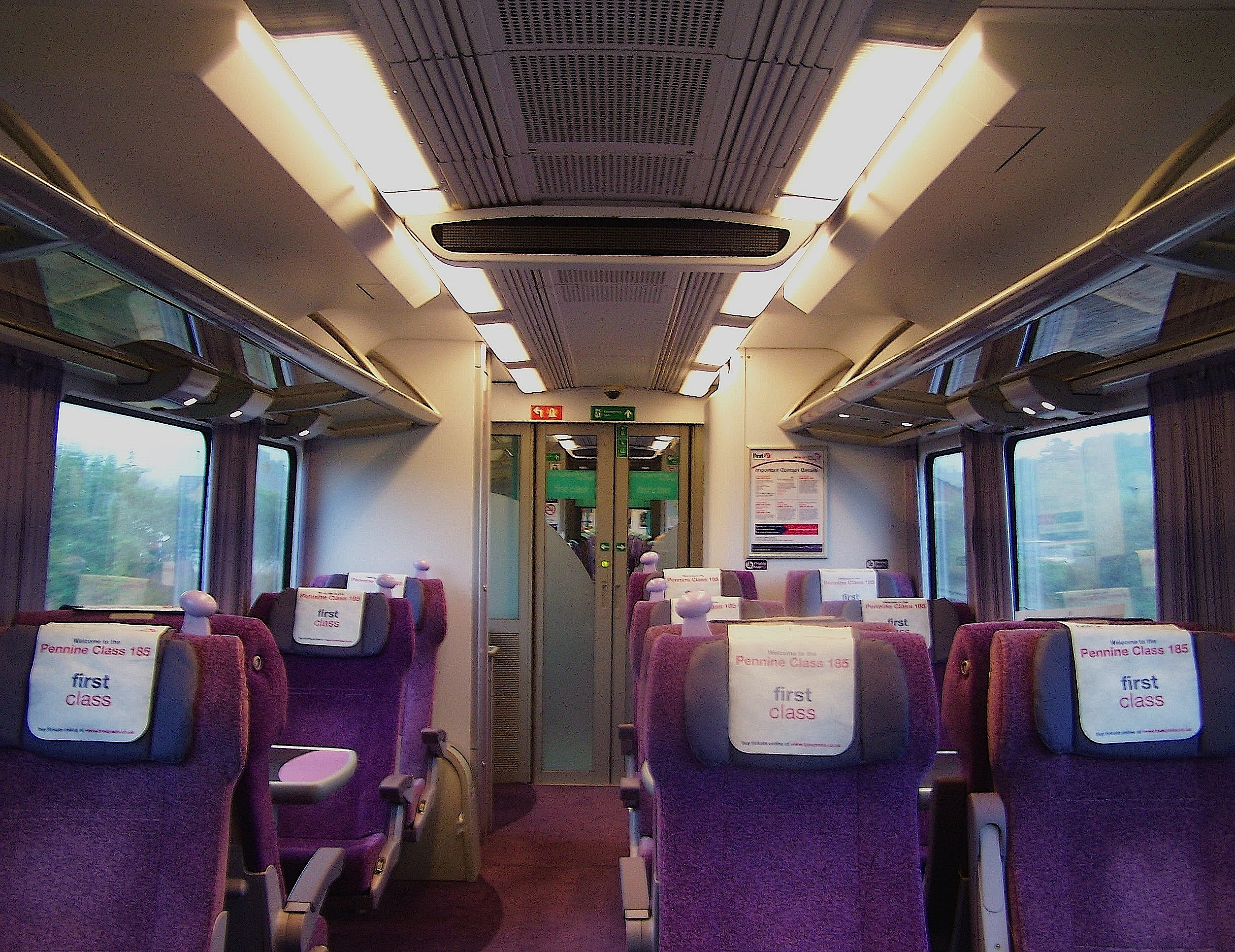 The First Class interior of Class 185 DMCO vehicle